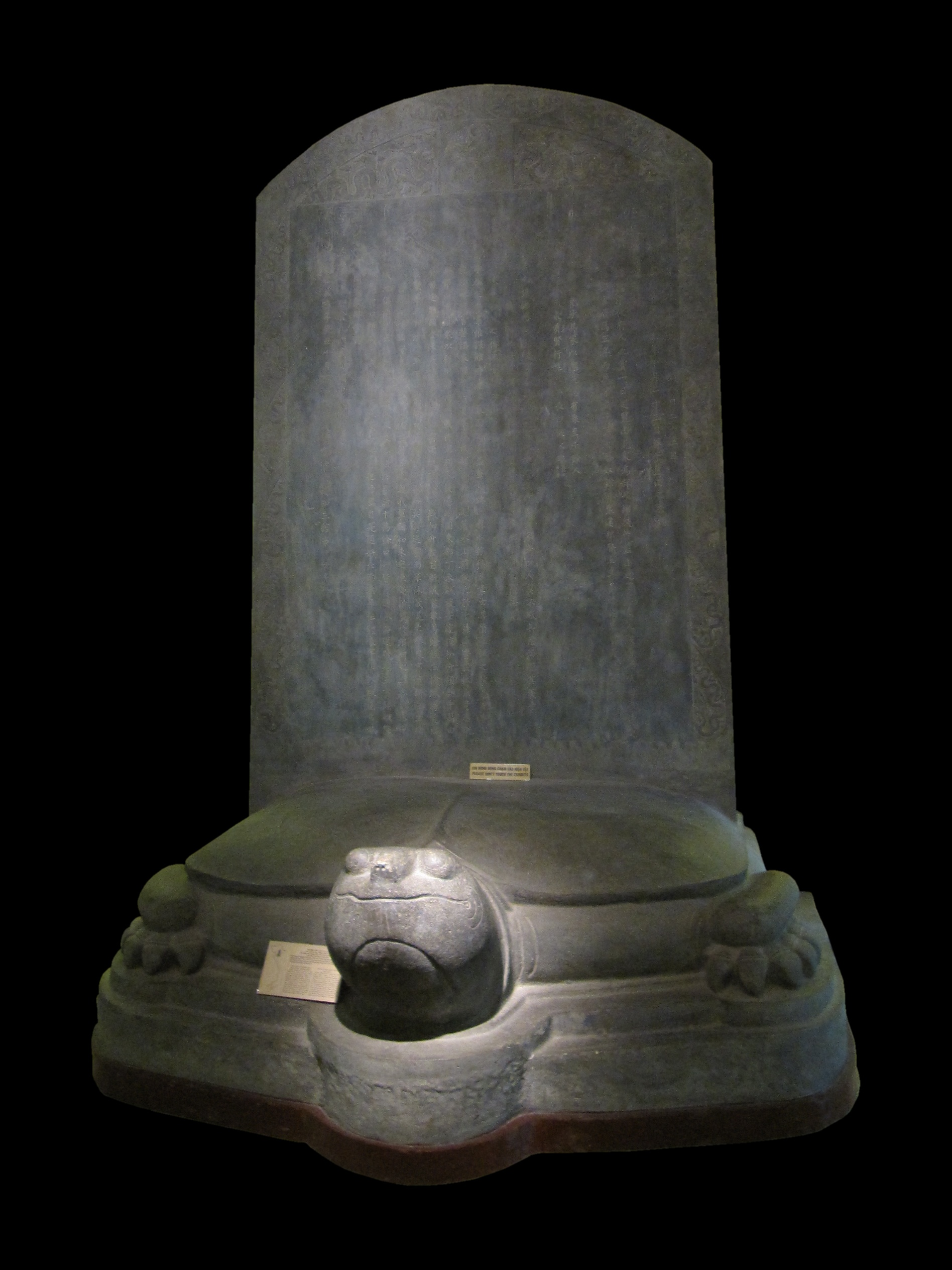 Vĩnh Lăng stele (replica). Height: 330 cm, breadth: 280 cm. Stone, erected in the 6th year of Thuận Thiên reign (1433). Early Lê dynasty, ancient capital of Lam Kinh, Thanh Hóa province, central Vietnam. Inscribed by Nguyễn Trãi. Commemorative element. Inscription showed on biography of Lê Lợi, leader of Lam Son uprising (1418-1427) against Ming invaders from China, from beginning to final victory and him becoming the first king of the Early Lê dynasty in 1428. This stele is also one of typical stone sculptures of Vietnam fine art in the 15th century. National Museum of Vietnamese History, Hanoi.